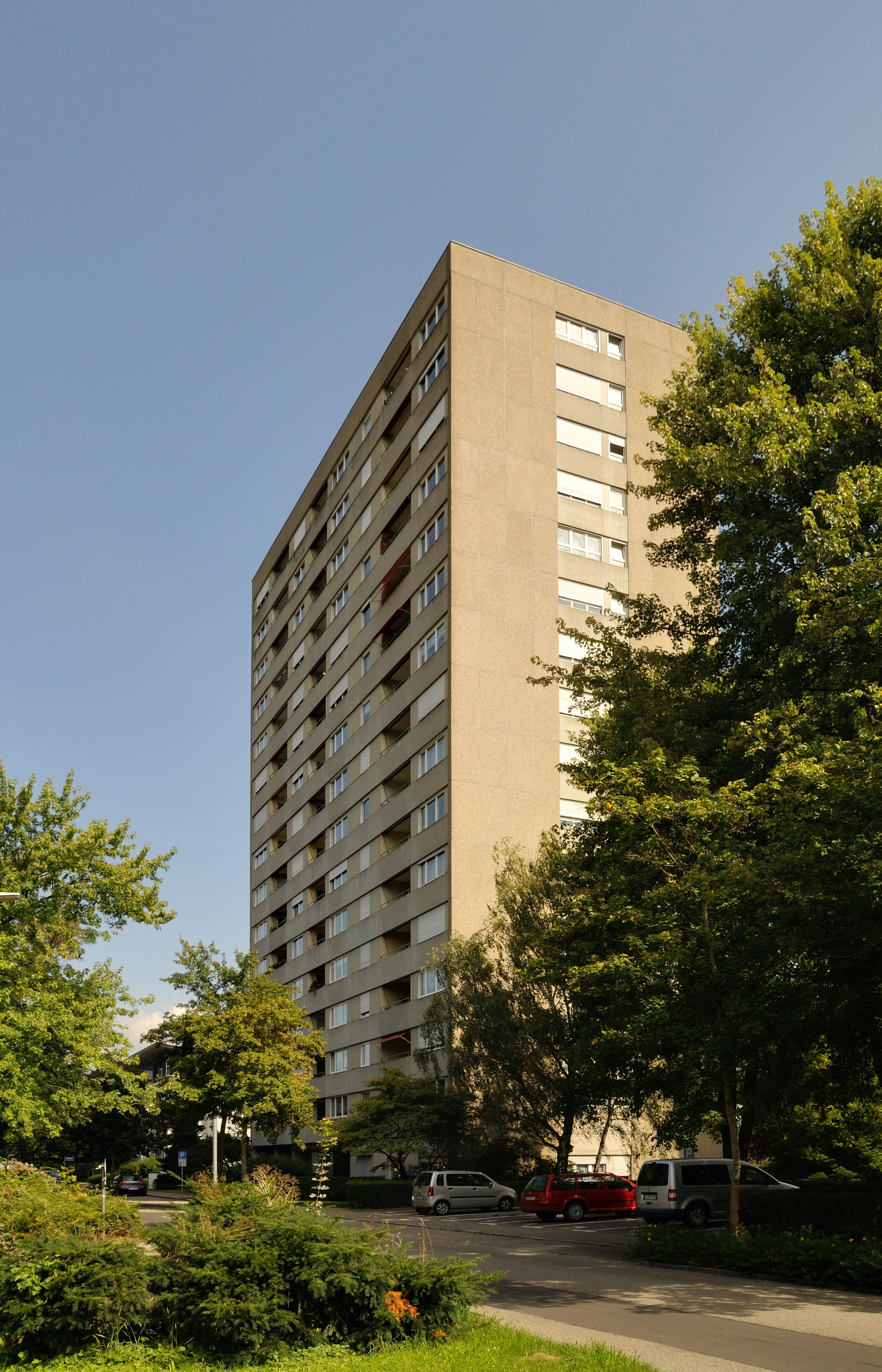 Apartment building, Lörrach